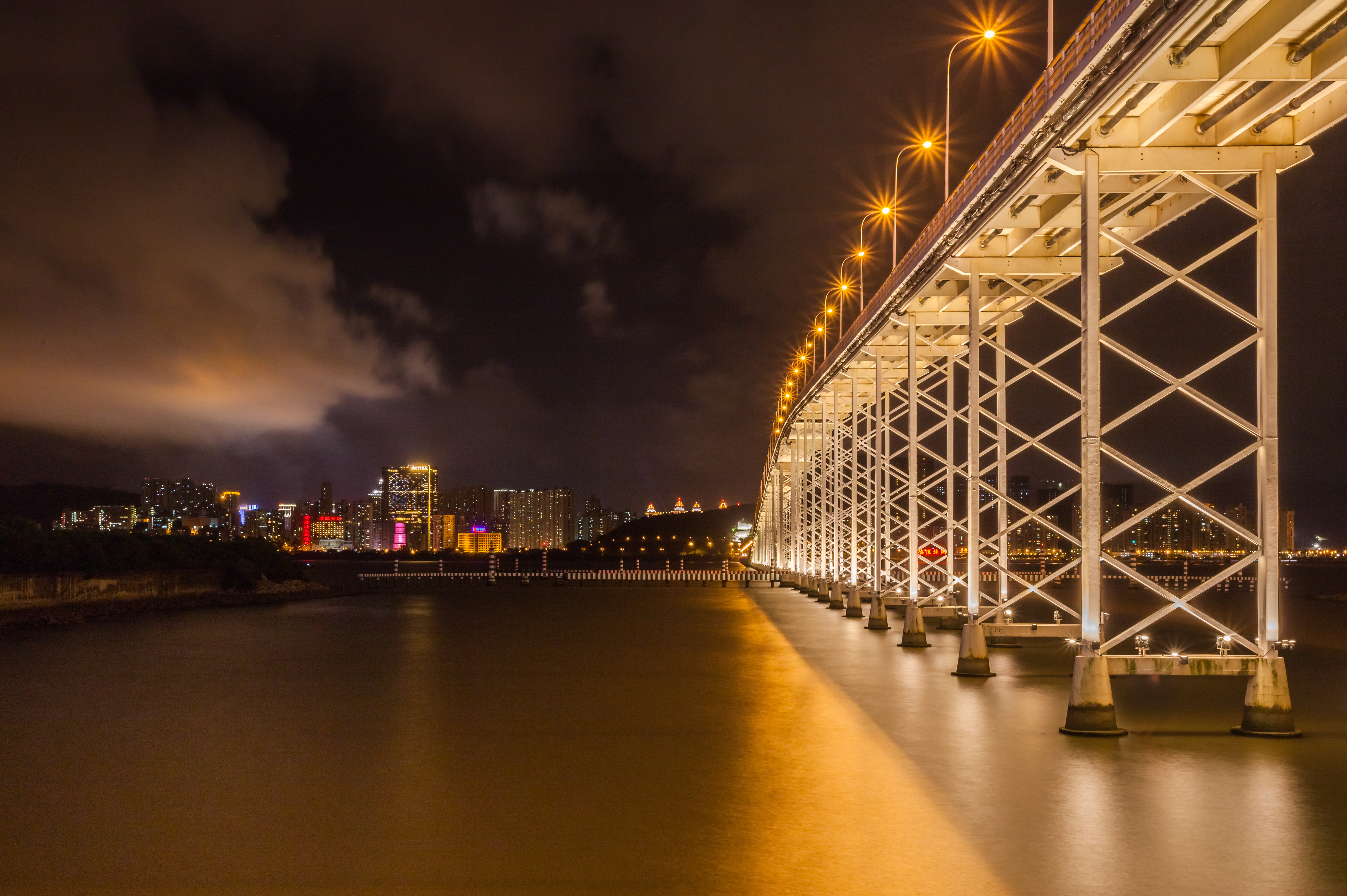 Night view of the Governador Nobre de Carvalho Bridge, with the island of Taipa in the back, Macau.